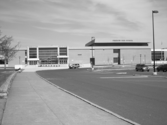 Freedom High School, May 2007.